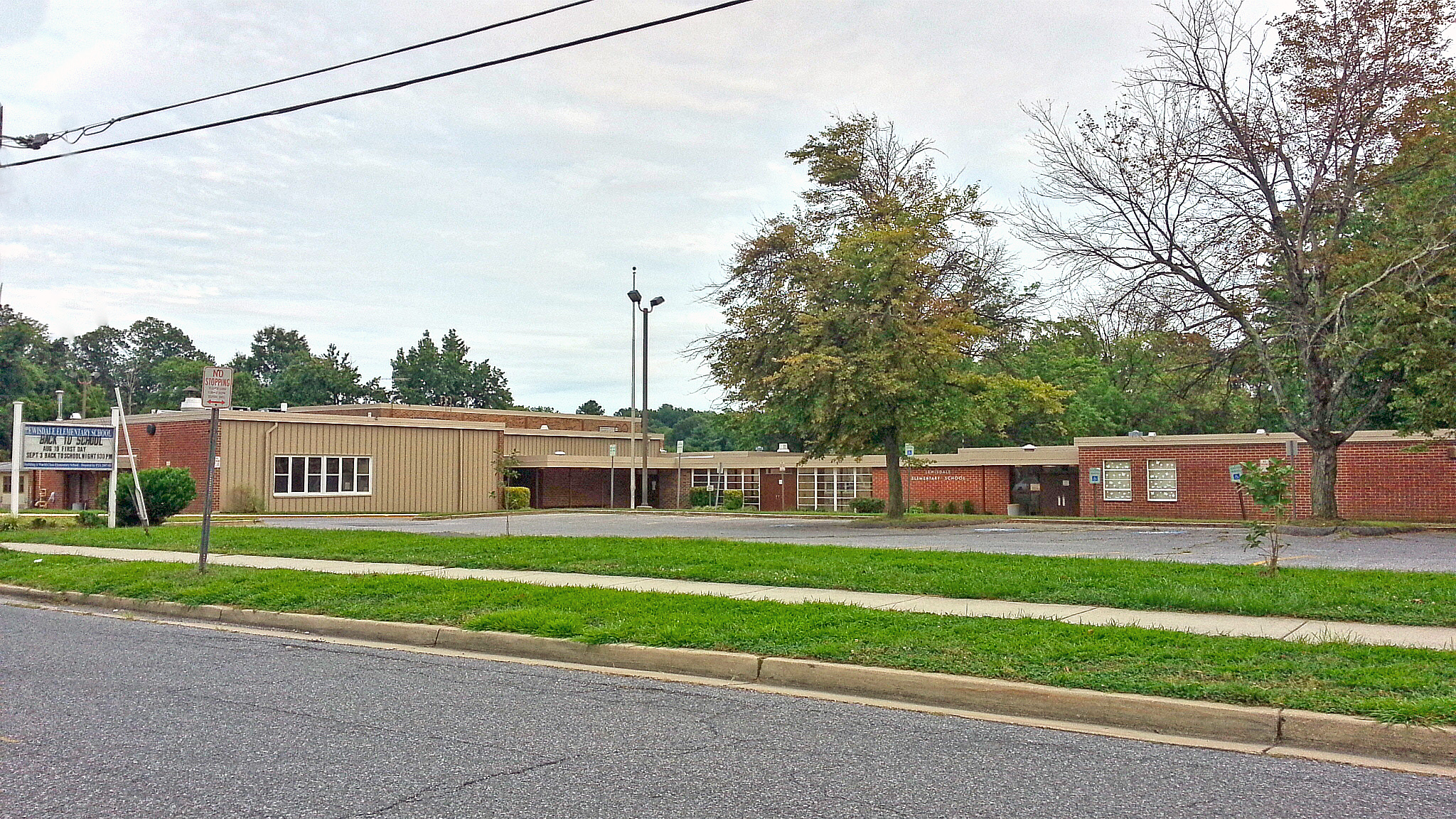 Front view of Lewisdale Elementary School in the Chillum census-designated place, Maryland.